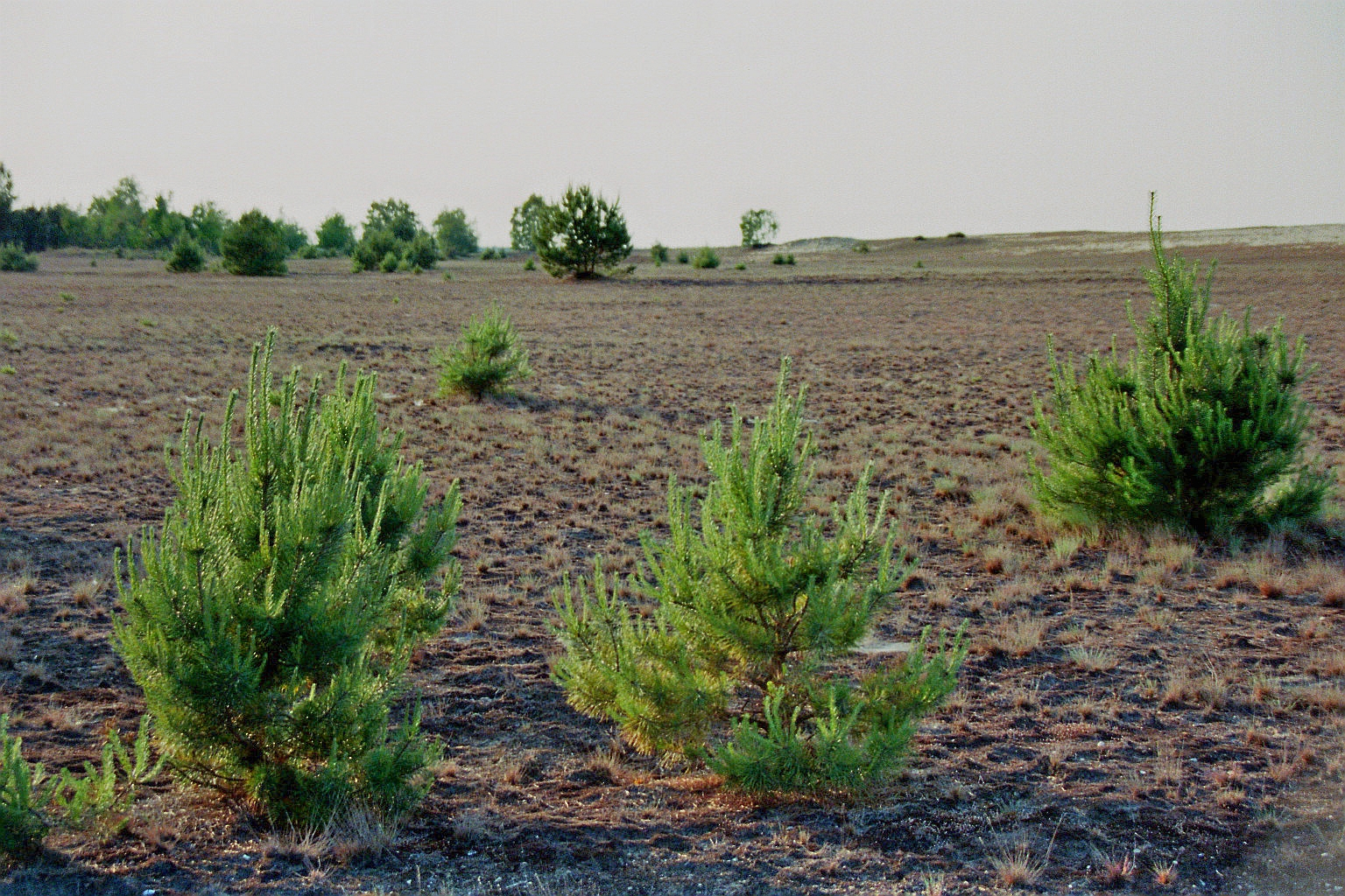 Lieberose Desert (Lieberoser Wüste) in the Lieberoser Heide near Lieberose, Landkreis Dahme-Spreewald, Brandenburg, Germany. It is Germany's largest desert. (Photo taken on a guided tour.)